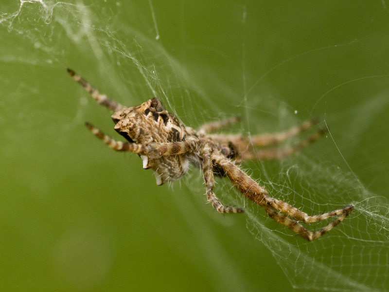 Cyrthophora citricola, Forsk